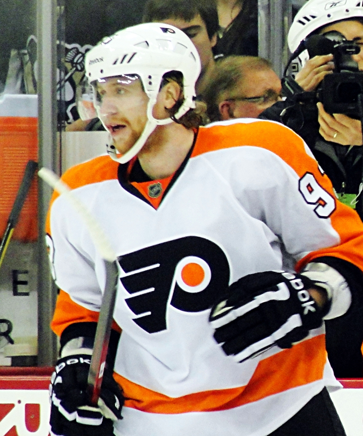 Jakub Voráček of the Philadelphia Flyers during a game against the Pittsburgh Penguins, December 29, 2011 at Consol Energy Center in Pittsburgh, PA.